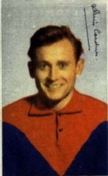 Photo of Denis Cordner taken in 1950